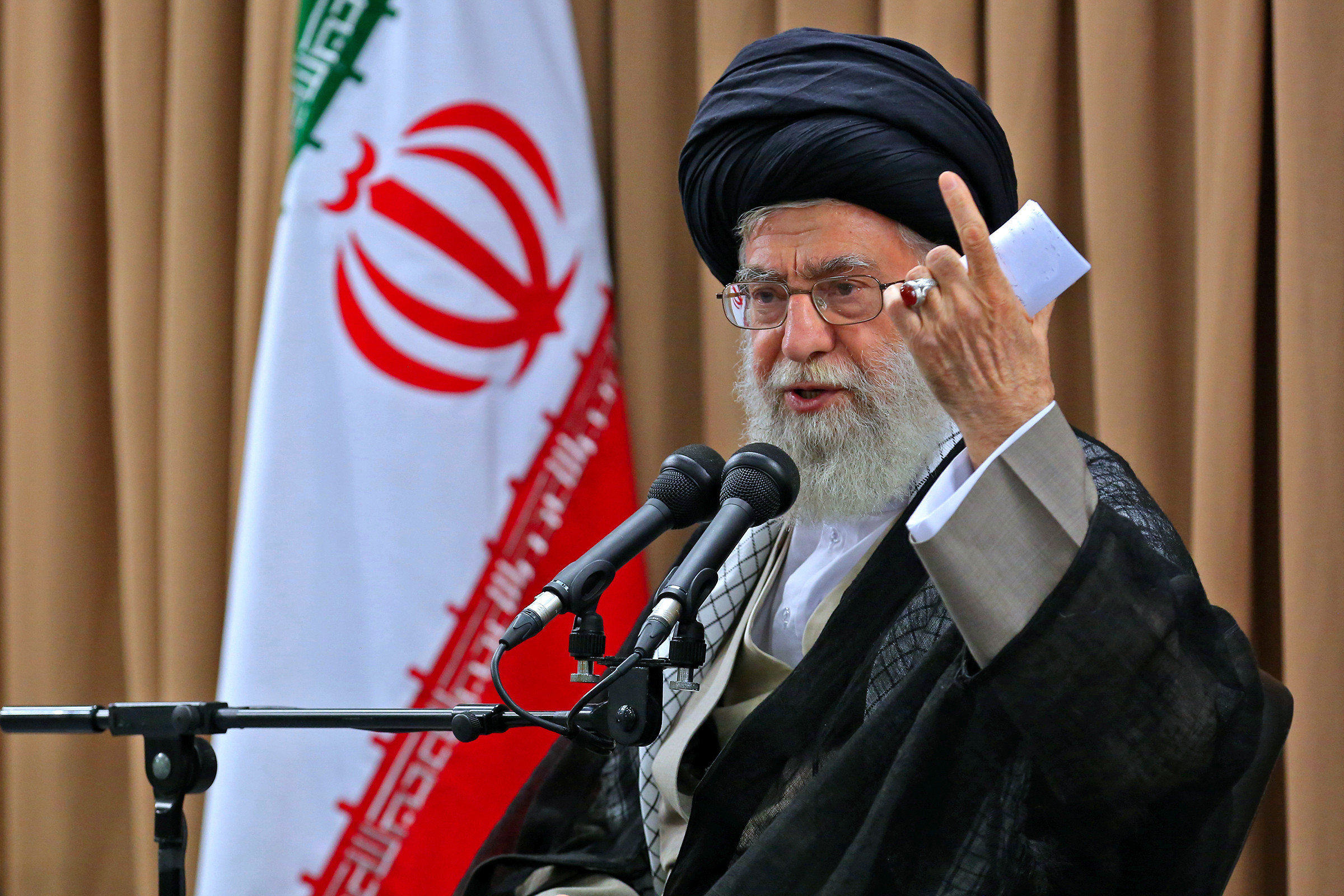 Ali Khamenei, Supreme Leader of Iran